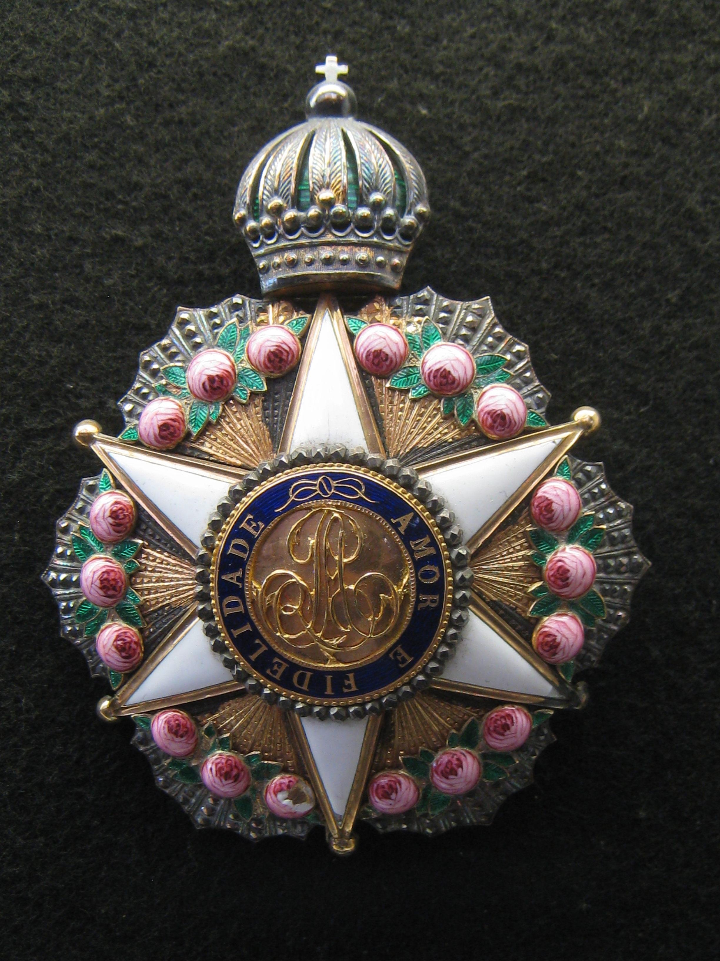 Imperial Order of the Rose (Brazil), from the collection of Don Pedro Christopherson. In the Fram Museum, Oslo, Norway.